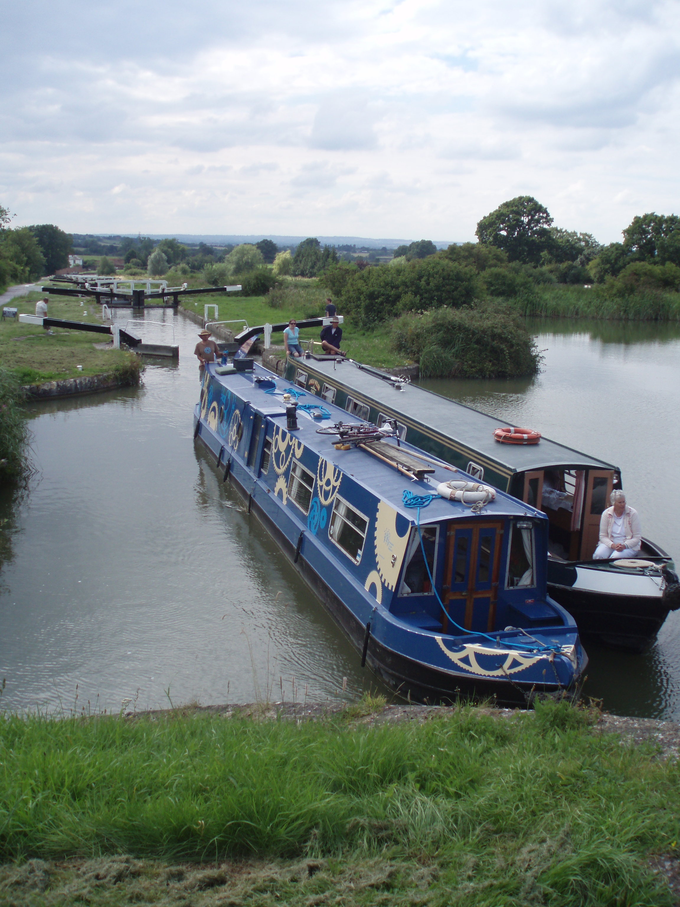 Photo taken by M.Eyre 7th August 2007